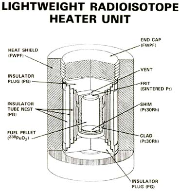 Cutaway view of a Lightweight Radioisotope Heater Unit (RHU).